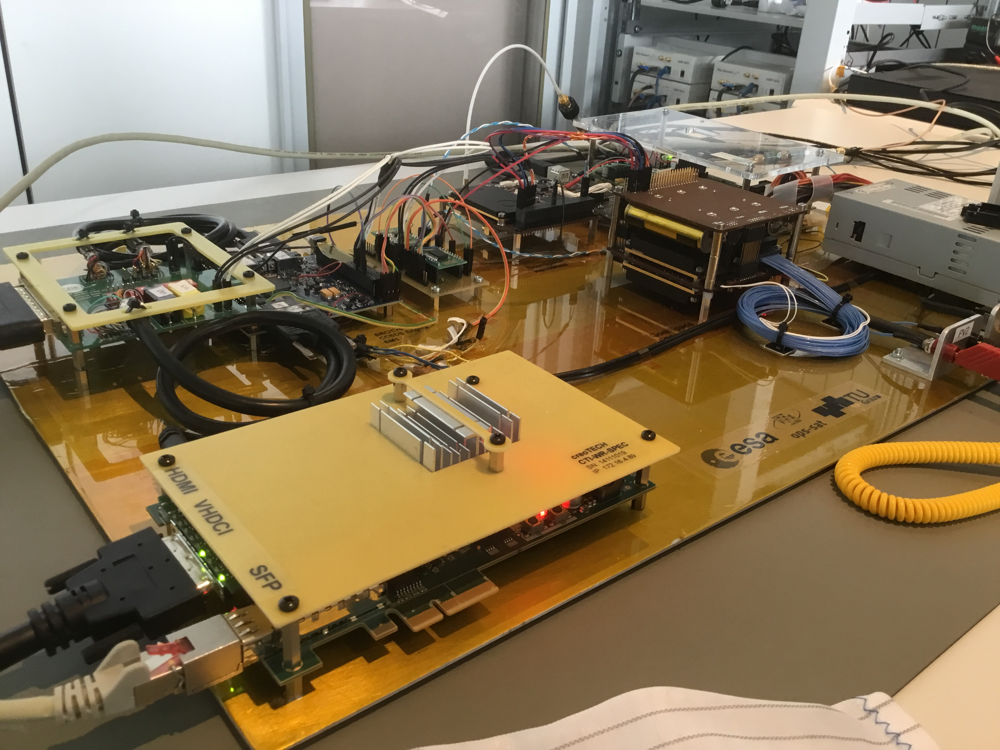 Traditionally, it has been very difficult to perform live, in-flight testing of newly developed software for satellites. No one wants to take any risk with an existing, valuable satellite, so it there are only limited opportunities to test new procedures, techniques or systems in orbit. ESA’s new cubesat, dubbed ‘OPS-SAT,’ will help solve this. It’s a small, low-cost and extremely robust platform that will enable a wide community of industry, research labs, academia and even individual developers to test their software and tools in orbit. It consists of a satellite that is only 30cm high but that contains an experimental computer that is ten times more powerful than any current ESA spacecraft. This week, the engineering model of OPS-SAT, seen on a test bench in this photo, was connected to its control system at ESA’s ESOC mission control centre for the first time. Both spacecraft and the ground system are using innovative new protocols to inter-communicate and both will now undergo an extensive testing and validation campaign. The flight model is expected to be ready for launch in 2018.